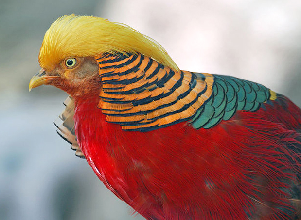 A Golden Pheasant at Southwick's Zoo, Massachusetts, USA.